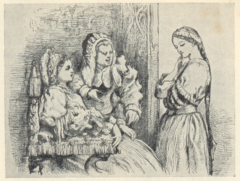 Romeo and Juliet, Act I-Scene_3. Lady Capulet and the Nurse persuade Juliet to marry Paris.